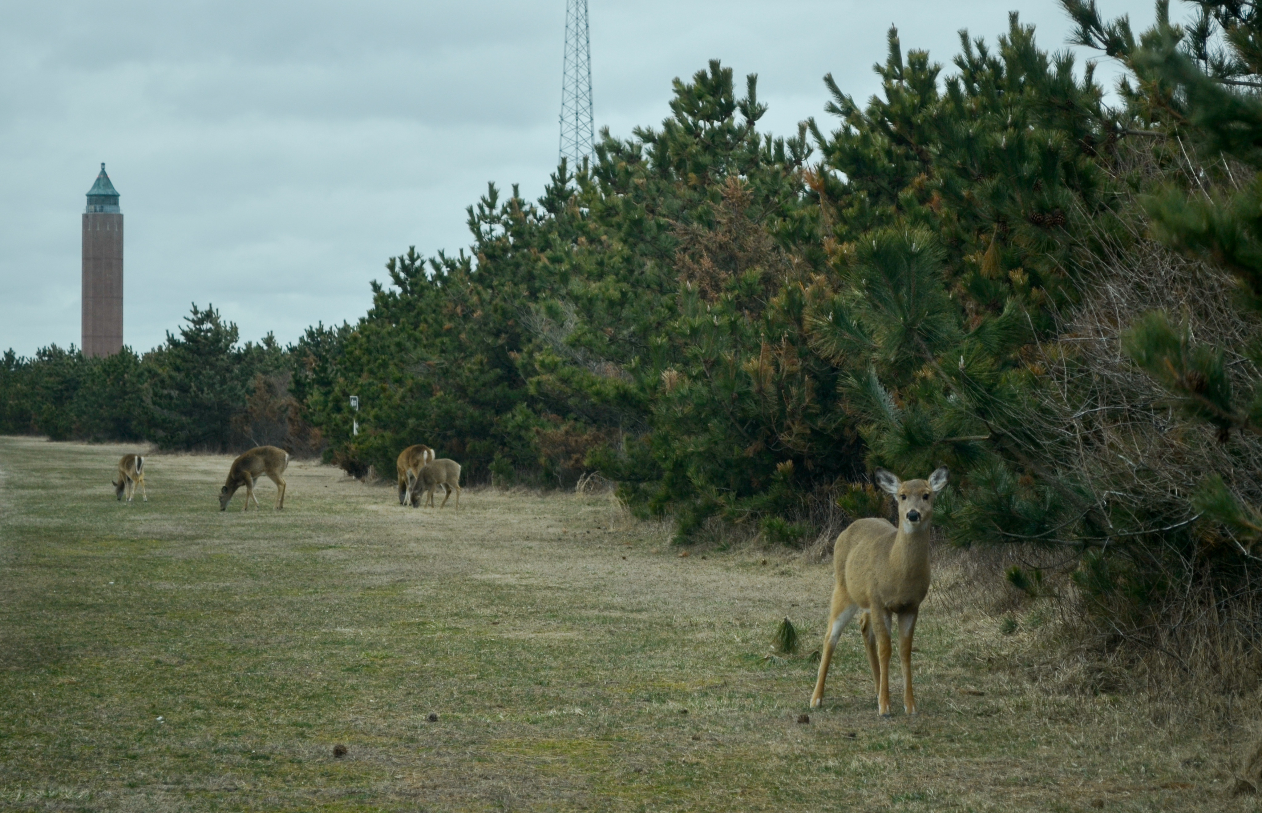 A deer in Robert Moses State Park, N.Y., shown March 6, 2013. The U.S. Army Corps of Engineers is coordinating Hurricane Sandy debris removal operations on Fire Island with local, state and federal agencies to minimize disruption its sensitive ecosystem. (U.S. Army photo by Chris Gray-Garcia/Released)